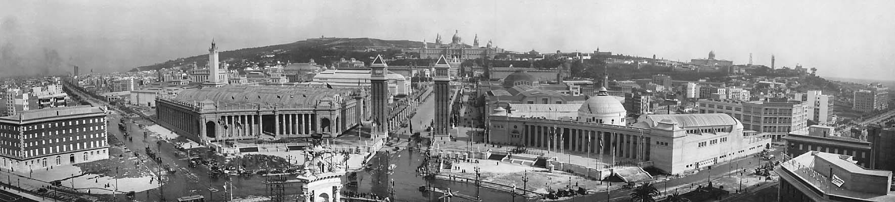 Panoramic view of the Barcelona Exposition, Spain. 1929.